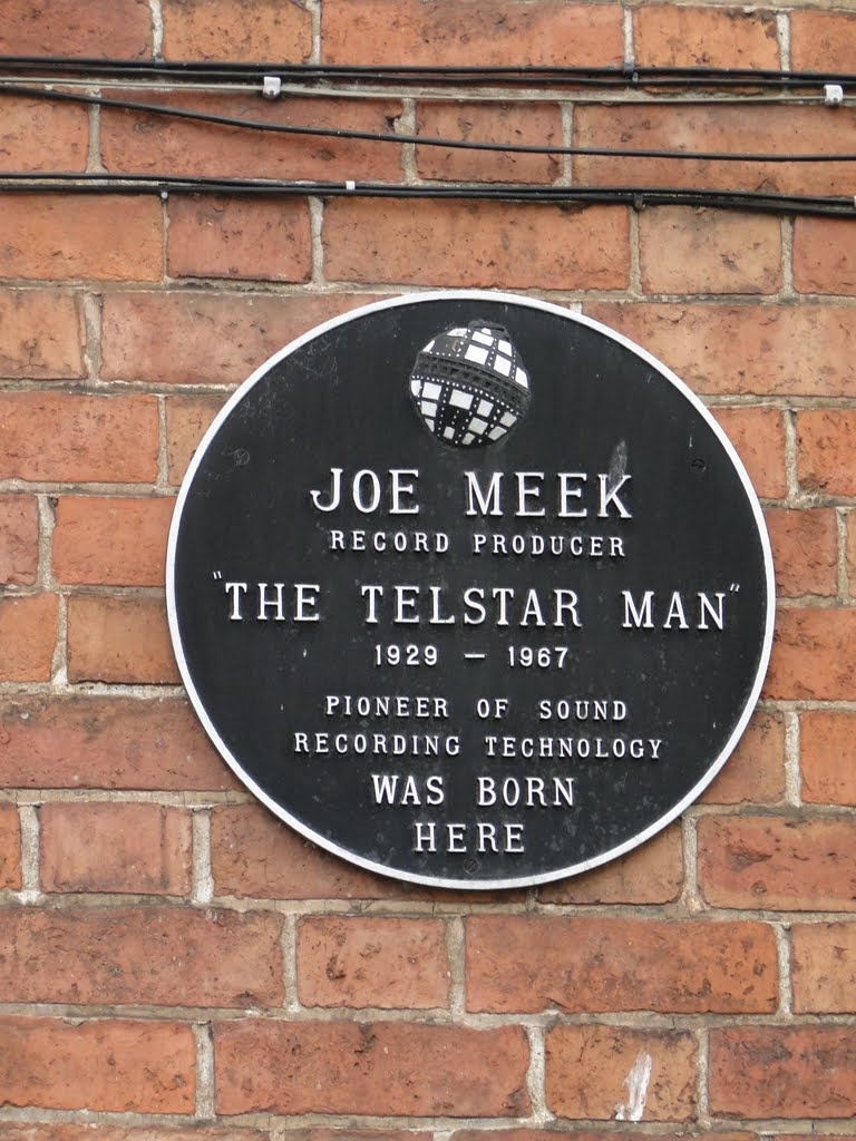 Joe Meek record producer "The Telstar Man" 1929-1967 pioneer of sound recording technology was born here Photograph by Robert Thursfield